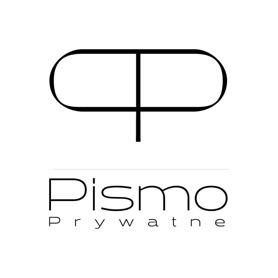 Uniwersytet Humanistycznospołeczny, Wroclaw